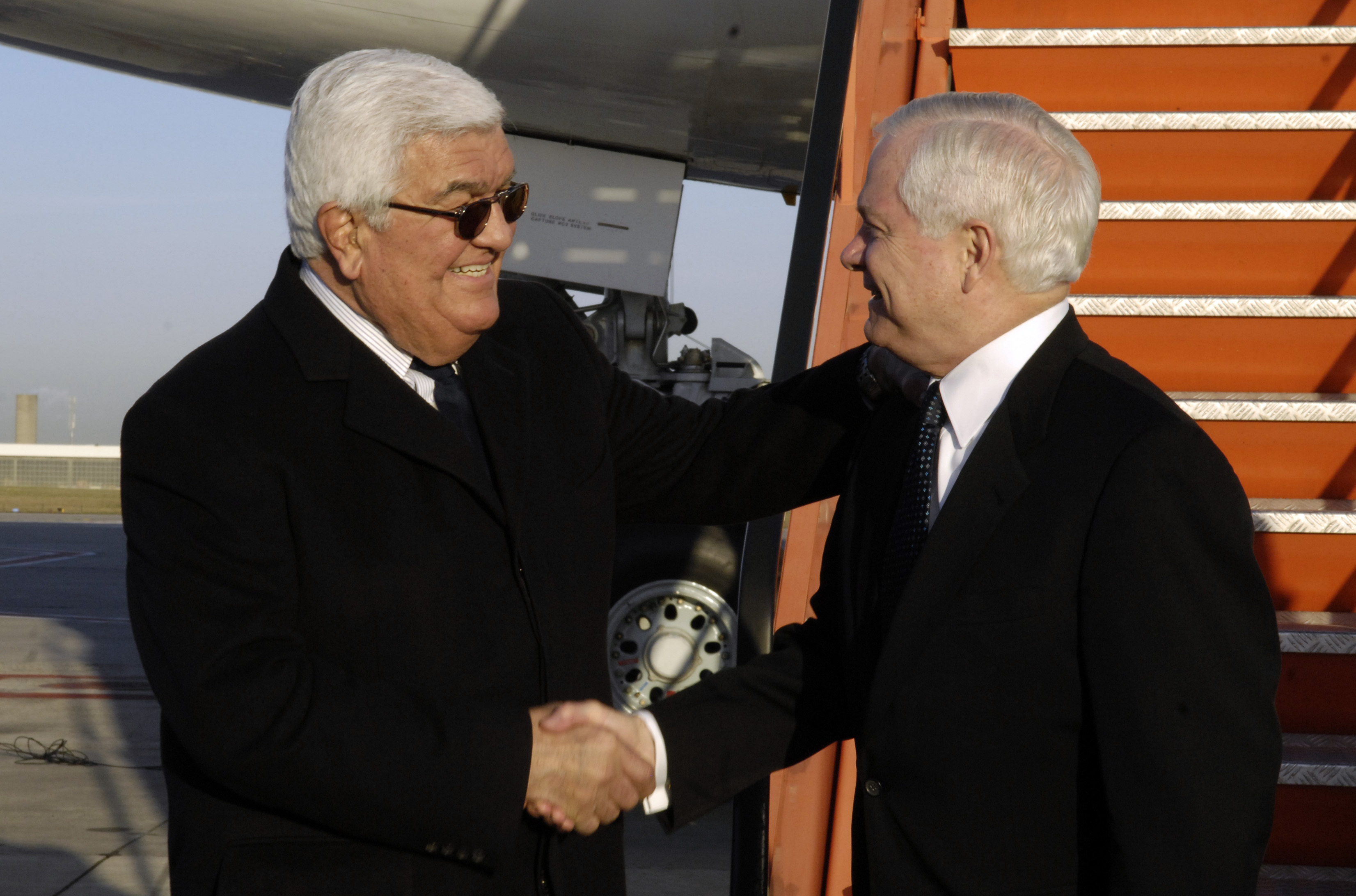 U.S. Defense Secretary Robert Gates is greeted by U.S. Ambassador to Belgium Tom Korologos upon his arrival in Brussels, Belgium, Jan 15, 2007.